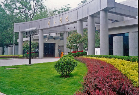 Gate of China Foreign Affairs University